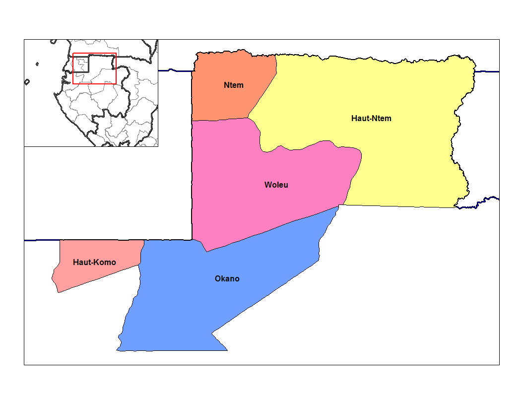 Map of the departments of Woleu-Ntem province in Gabon. Created by Rarelibra 20:23, 2 January 2007 (UTC) for public domain use, using MapInfo Professional v8.5 and various mapping resources.